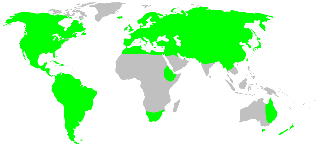 Amaurobiidae habitat distribution, drawn after Platnick: World Spider Catalog 7.0. This is not at all a precise rendering of the distribution! If you have better information, please replace this map, or send me the info, and i will redraw it.